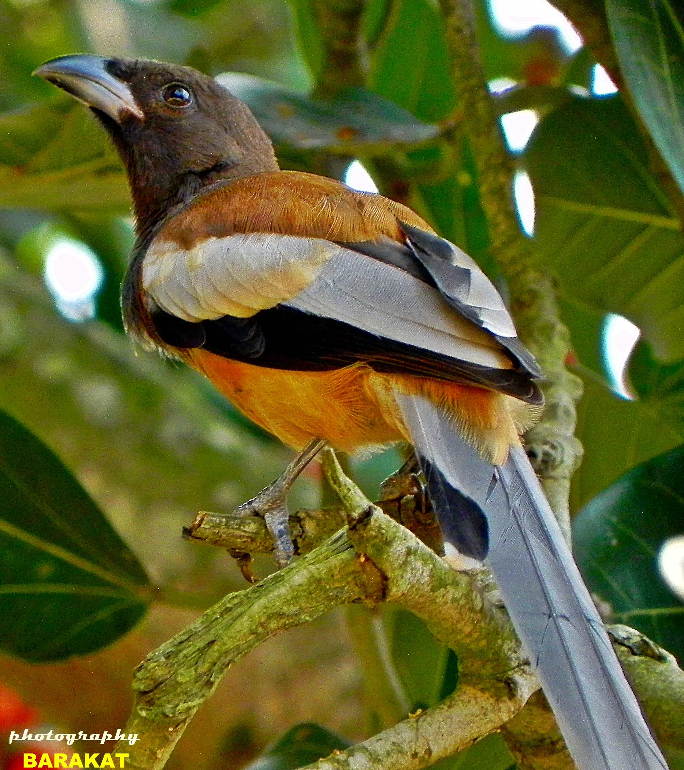 Indian Tree Pie (Hanrichacha)